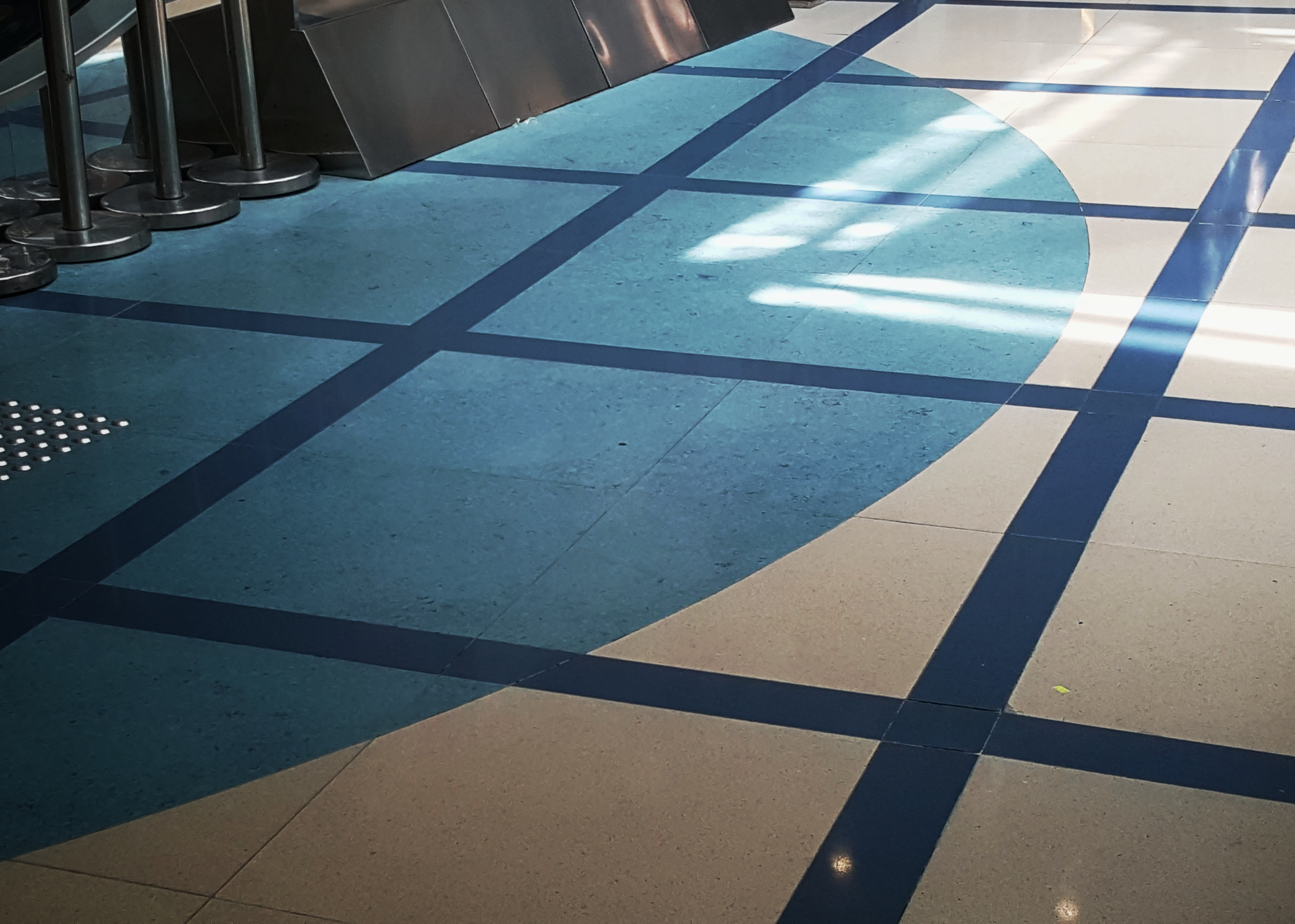 HK LeiYueMunPlaza feature floor